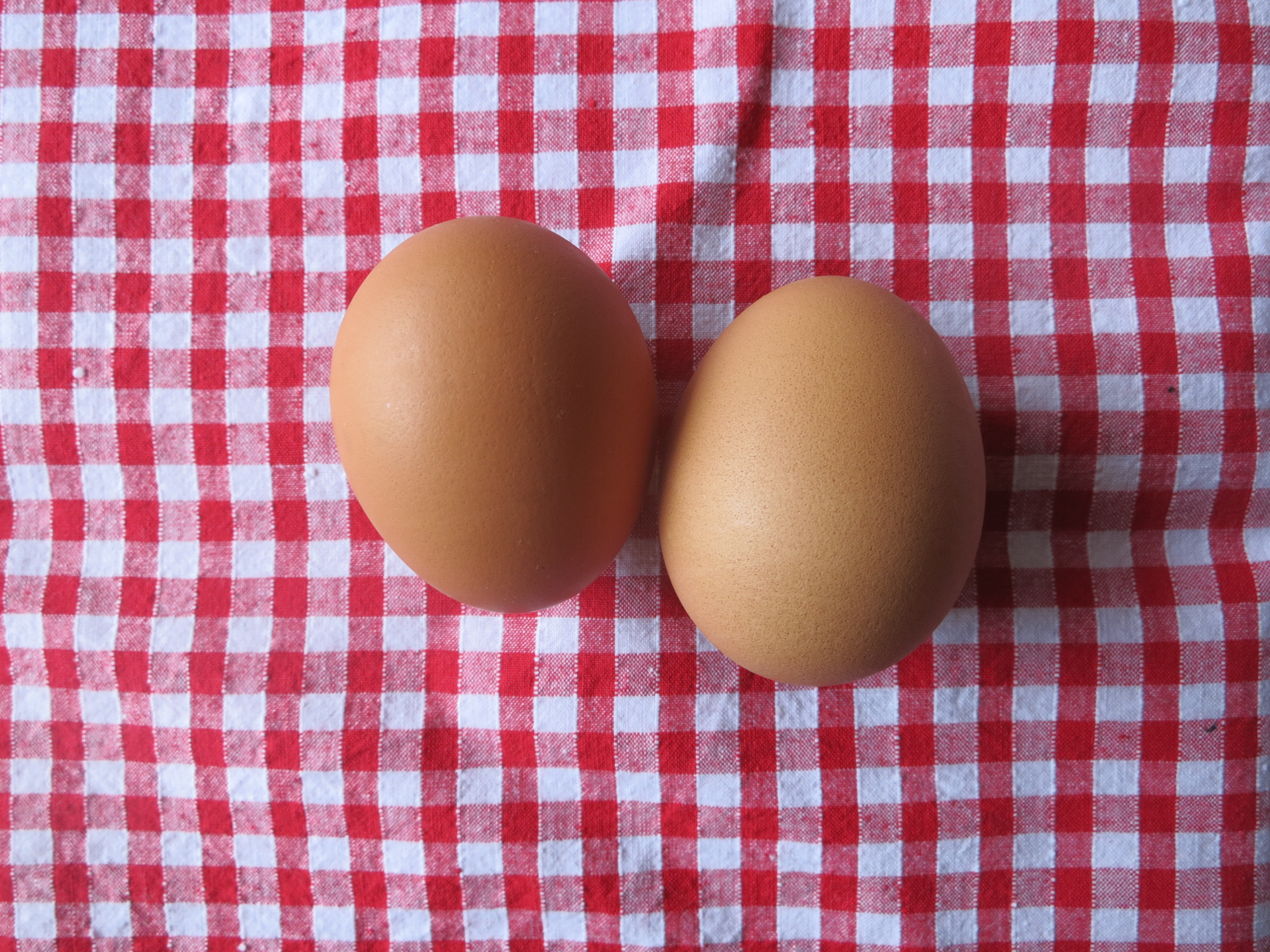 2 eggs are 1 serve